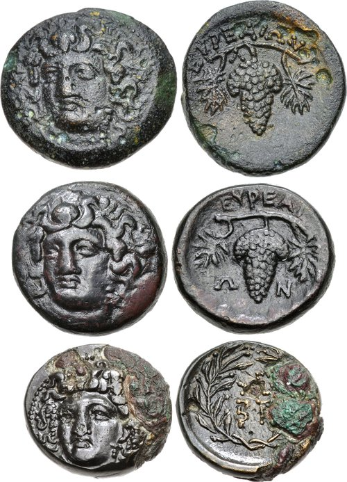 3 coins from Eurea, ancient Thessaly, Greece (circa 352-344 BCE), 19-22mm, 6,5-7.8 g), bearing from one side the head of a nymph 3/4 facing left with vine leaves and grapes on her head. On the other side: the inscription ΕΥΡΑΙΕΩΝ, grapes and vine leaves.